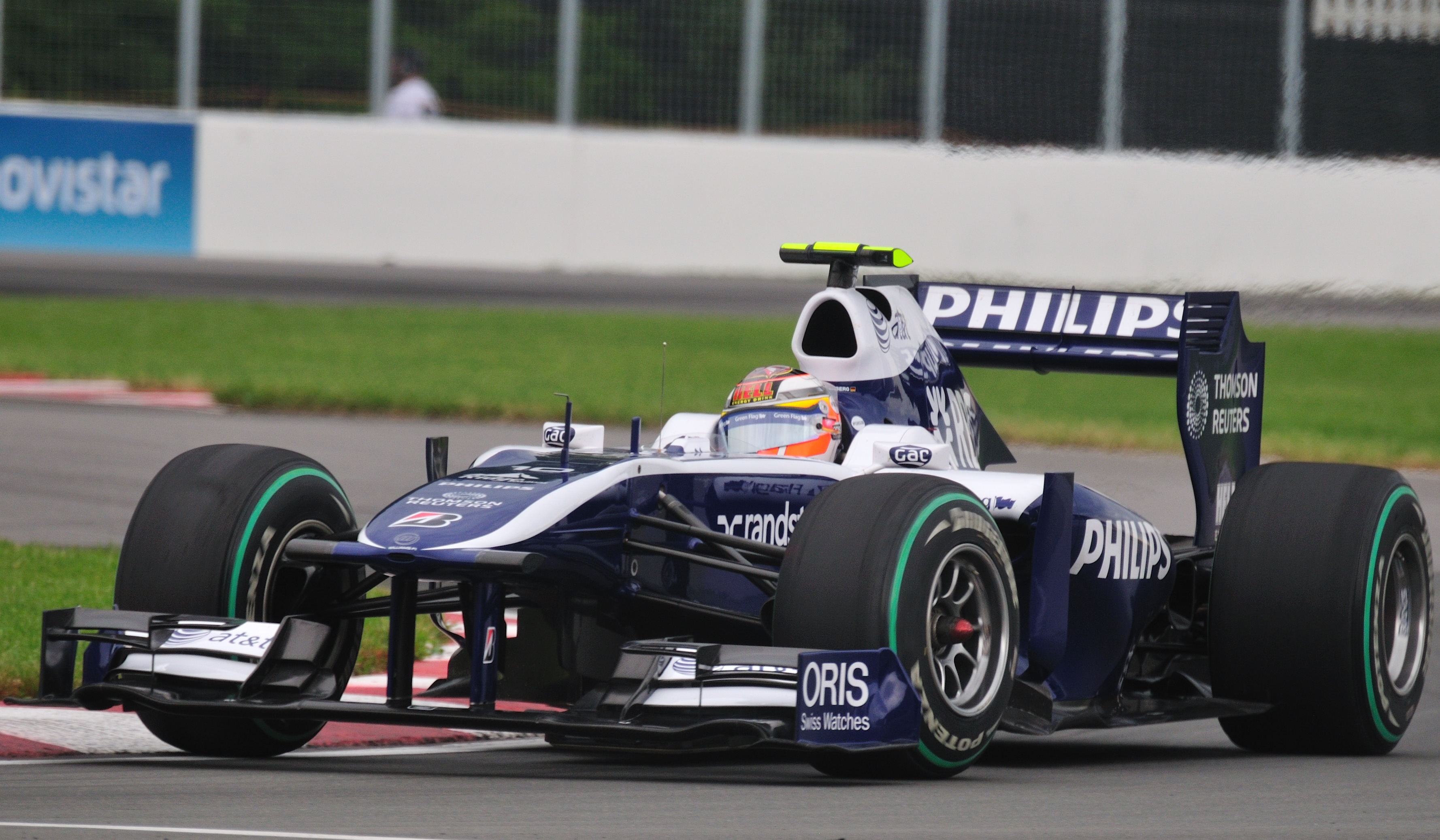 Williams driver Nico Hulkenberg of Germany (2010 Canadian GP)